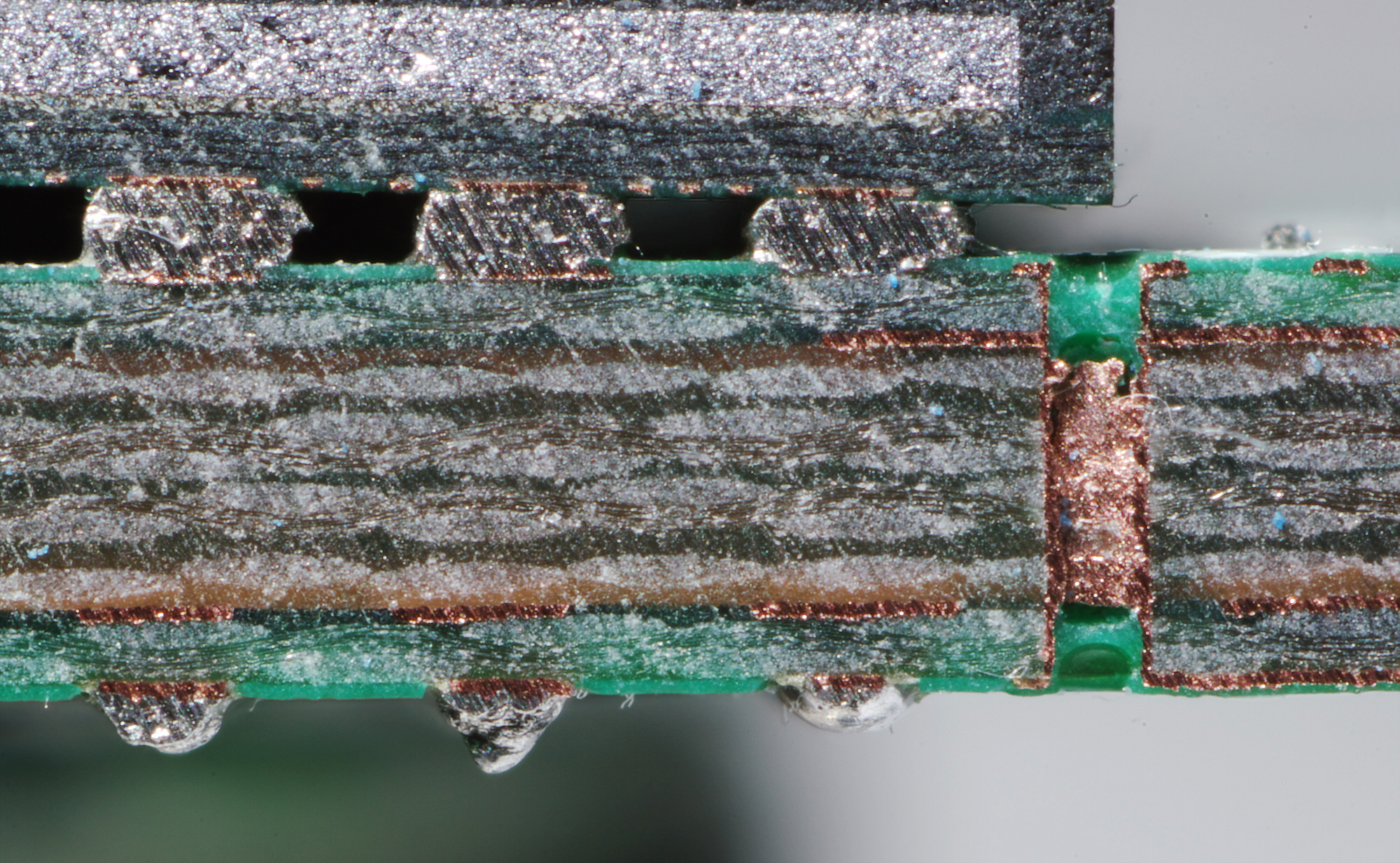 Cut through an SDRAM-Module. It is a multi-layer Printed Circuit Board (PCB) with BGA-packaging. On the right side a via.